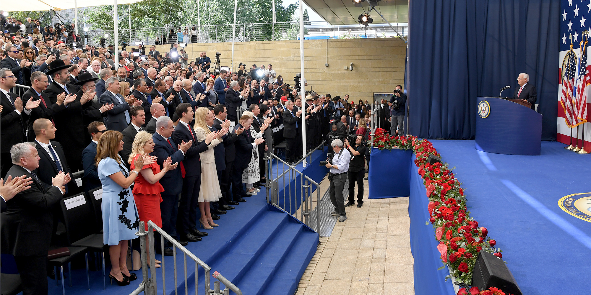 Embassy Dedication Ceremony